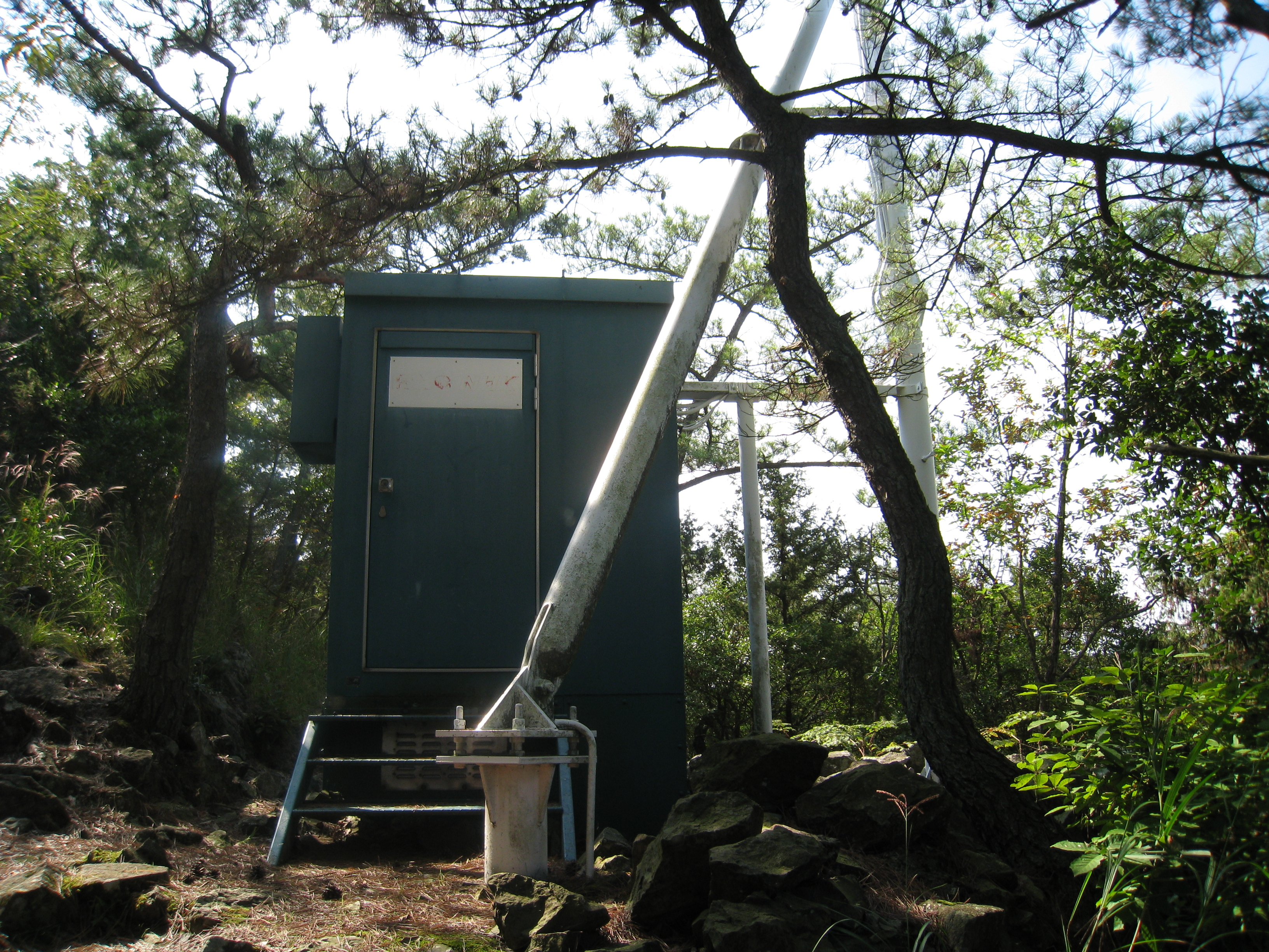 Equipment of Ritsurin-kita(Takamatsu-ritsurin) relay station.